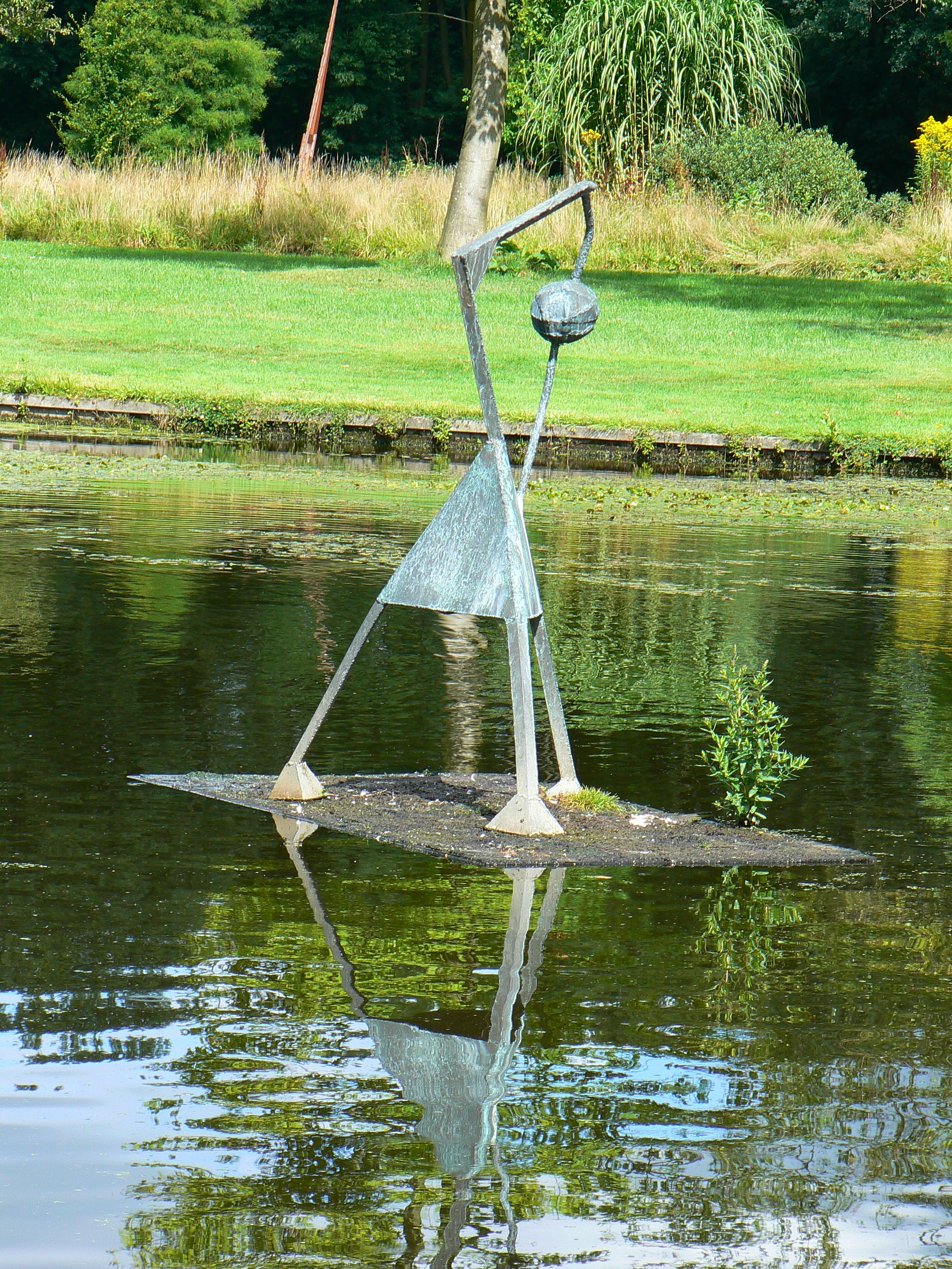 Sculpture Stormvogel (1987) by Egbert Hanning in the Gorechtpark in Hoogezand-Sappemeer/The Netherlands